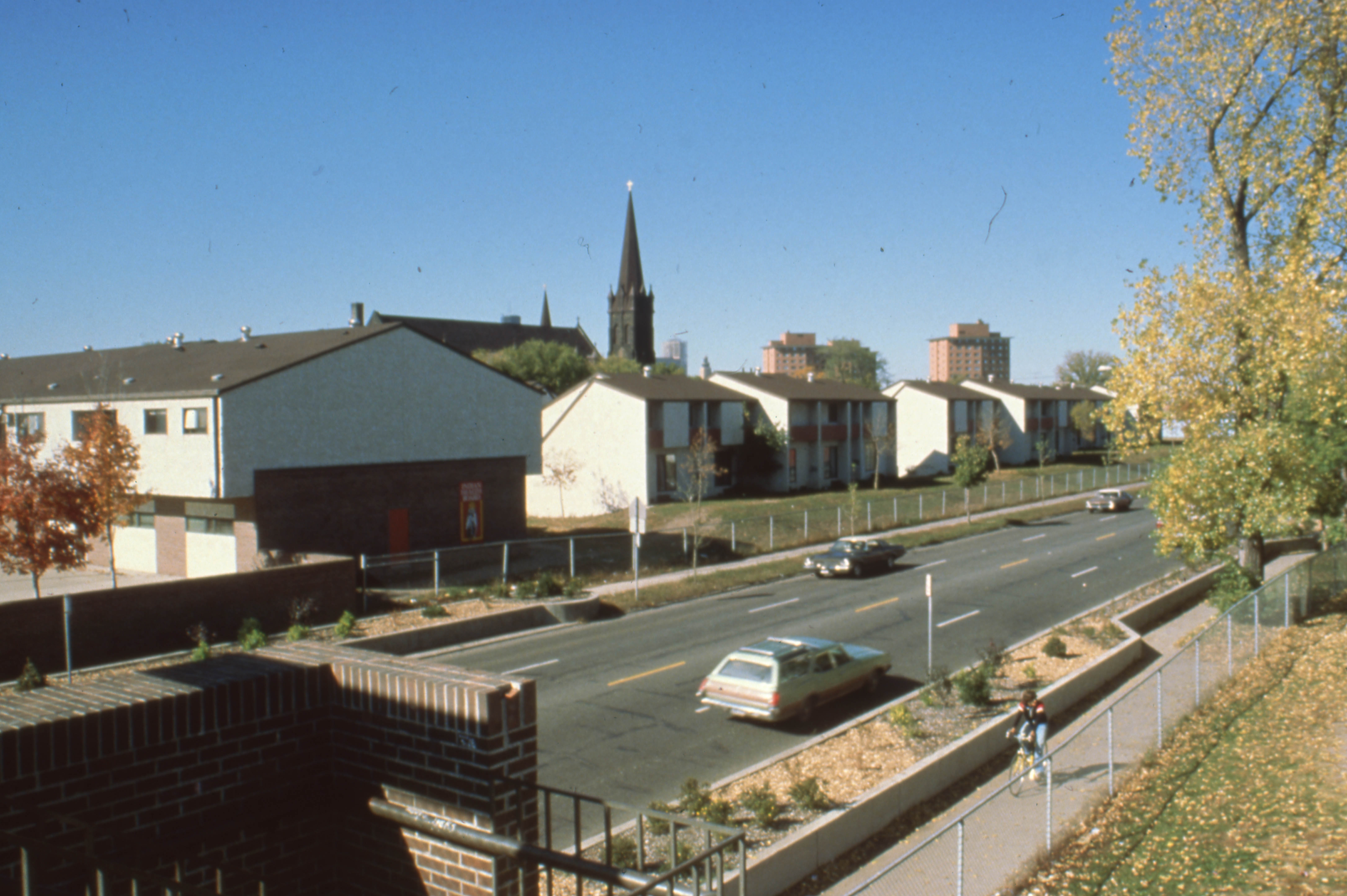 ca. 1980